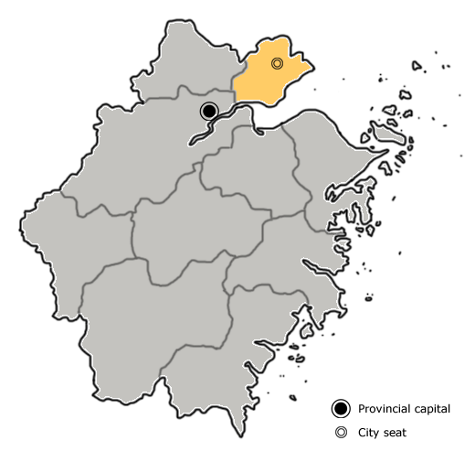 The prefecture-level city of Jiaxing is highlighted on this map of Zhejiang province, People's Republic of China.